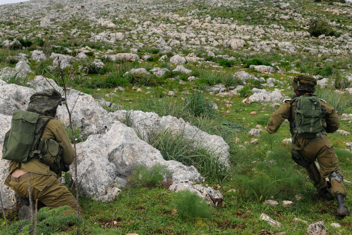 February 27, 2012 Last month, soldiers from the Elite Egot Unit took on their final test- after more than a year of training, they conducted a week of exercise in which they put all of their studying into action. During this week, the soldiers demonstrated their abilities in camouflage, fighting in urban warfare style and much more. The Egoz Reconnaissance Unit is an elite special forces unit of the IDF that specializes in guerrilla warfare. The Egoz Battalion is part of the Northern Command's Golani Brigade. The Israel Defense Forces Facebook The Israel Defense Forces blog Follow us on Twitter